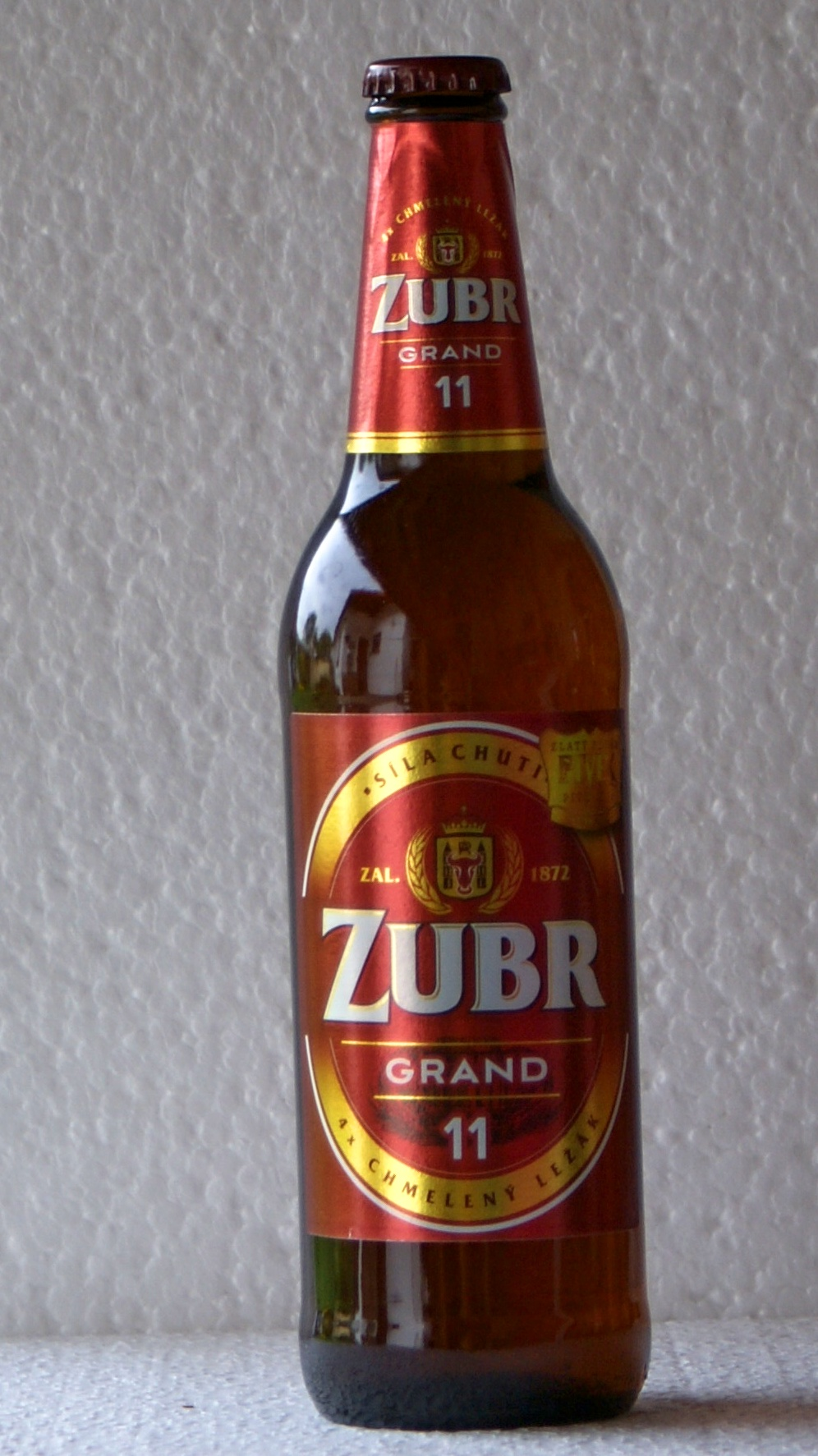 Bottle of Zubr Grand 11 lager beer from Přerov brewery in Moravia.